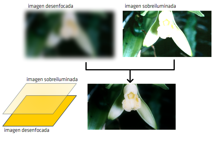 ORTON EFFECT SPANISH EXPLAIN ________________________________________ Img based on uploaded by Toapel (Vanilla planifolia (an orchid - source of vanilla) Downloaded from : Credits : Everglades National Park (US_GOV)